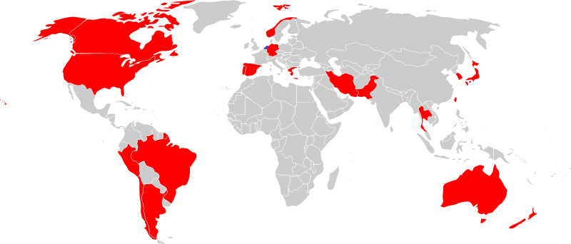 Military operators of the P-3 Orion - Update (Netherlands former Operator) in blue